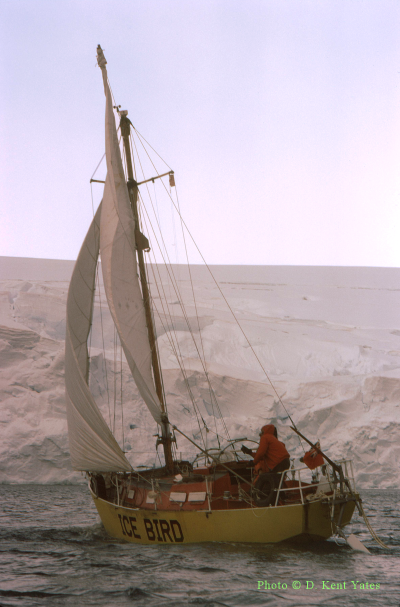 David Lewis puts his yacht Ice Bird through its initial trials after being refit at Palmer Station, Antarctica in Austral Summer, 1973. Photographed from a rubber Zodiac, by D. Kent Yates, part of USGS team at Palmer Station in 1973. The raft was piloted by Albert P. Giannini, a biologist from U.C. Davis. We were in Arthur Harbor, about 1/4 mile from Palmer Station.